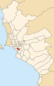 Map of the Lima Province highlighting the district of Surquillo Created by User:StarbucksFreak - May 2005